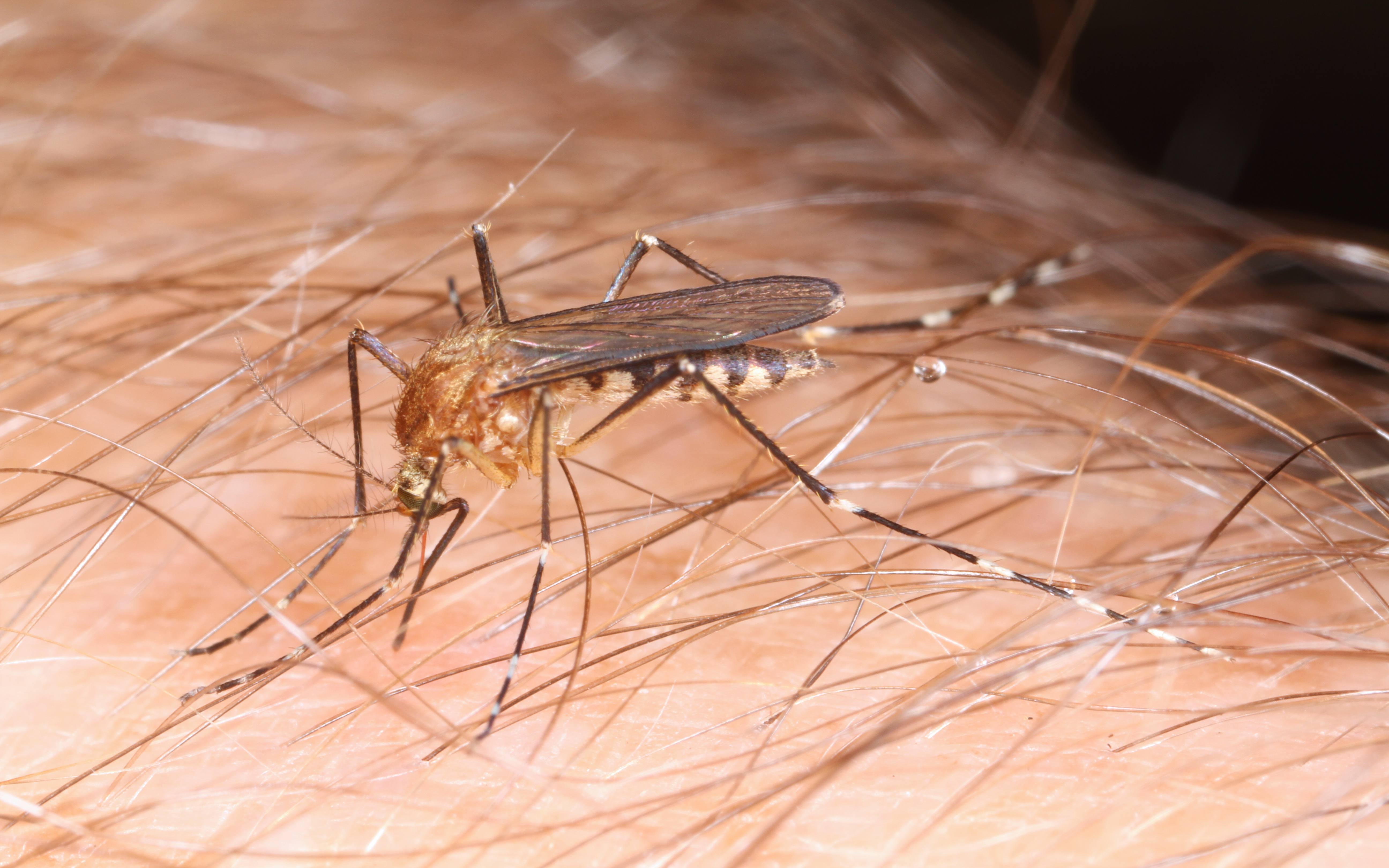 This image depicts the mosquito Ochlerotatus canadensis, formerly Aedes canadensis, commonly known as the woodland pool mosquito, which had alighted upon a human host’s arm, and was in the process of obtaining her blood meal. Having inserted her proboscis through the skin surface, if you look carefully, you can see the red blood climbing up the proboscis to the head region of the insect. Content Providers(s): CDC/ Robert S. Craig